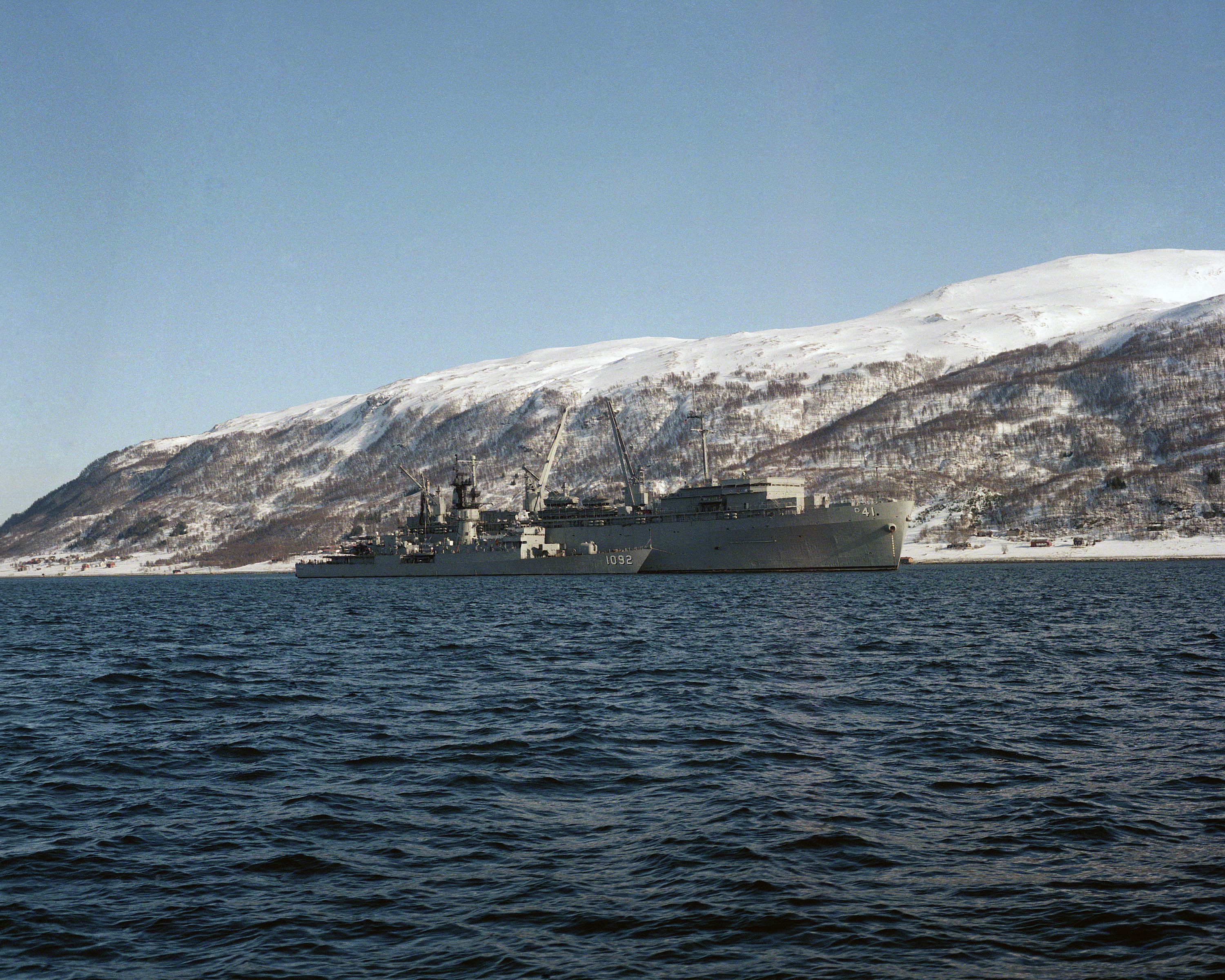 The U.S. Navy Knox-class frigate USS Thomas C. Hart (FF-1092) and the destroyer tender USS Yellowstone (AD-41) anchored during the exercise "United Effort/Team Work '84" off Tromsø, Norway, on 1 April 1984.